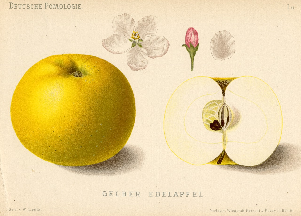 Illustration 11 from Deutsche Pomologie - Aepfel Apple cultivar shown: Gelber Edelapfel